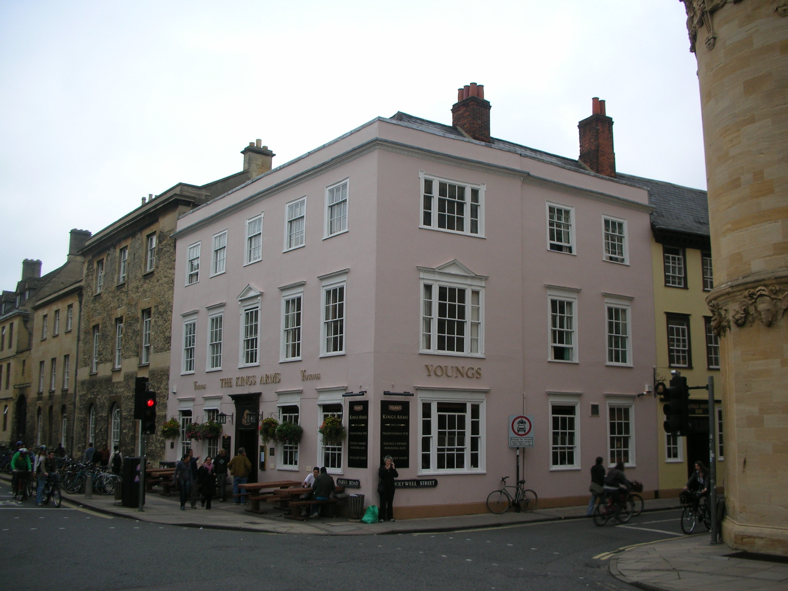 King's Arms, Oxford, England. Photograph by Jonathan Bowen.